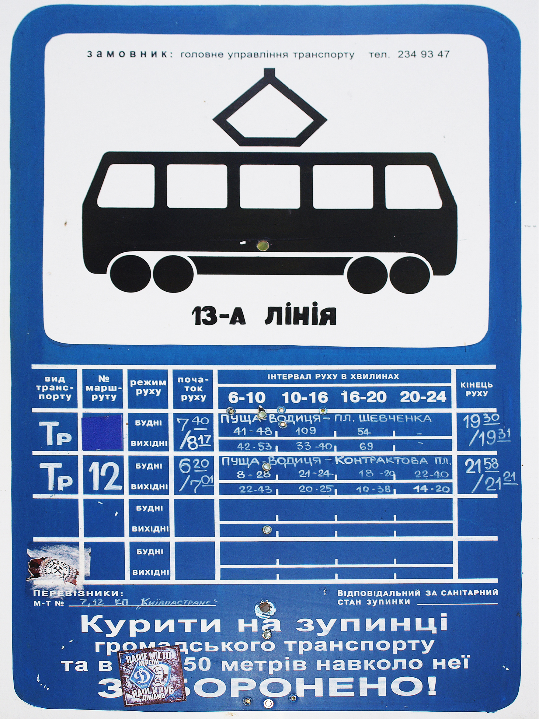 Tram stop signs in Pushcha-Vodytsia (Kyiv, Ukraine)